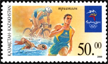 Stamp of Kazakhstan